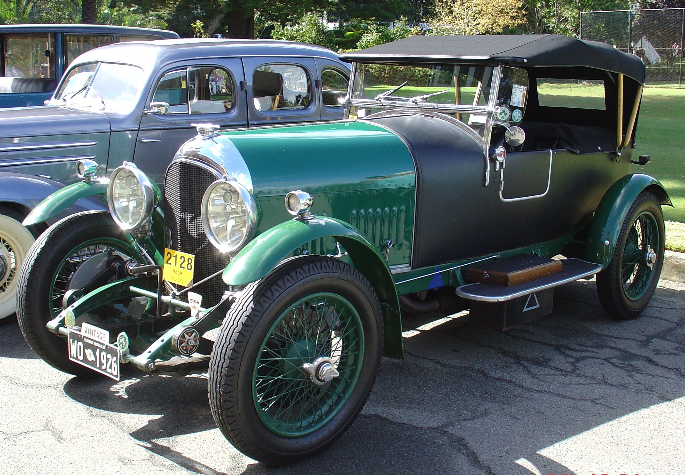 Bentley 3-litre Red Label speed model fitted with Vanden Plas open touring coachwork Chassis LM1335 wheelbase 9' 9½' Engine LM1337 high compression 3-litre, twin SU carburettors (now engine DN1729) Reg YO 9669 (now WO 1926) delivered June 1926original body a Weymann saloon by Gurney Nutting source of information and the owner Photograph taken by myself on 29 Apr 2007 at Government House, Perth, Western Australia, using Sony DSC V-1. Original size, 2310kB.